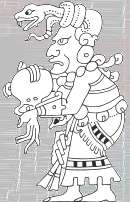 Maya goddess Ixchel as depicted in the Dresden Codex. From [1], but as this is a 2 dimensional detail from a pre-Columbian (more than 500 year old) Maya book, it is public domain.